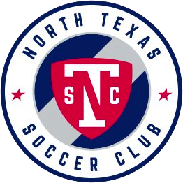 North Texas SC crest